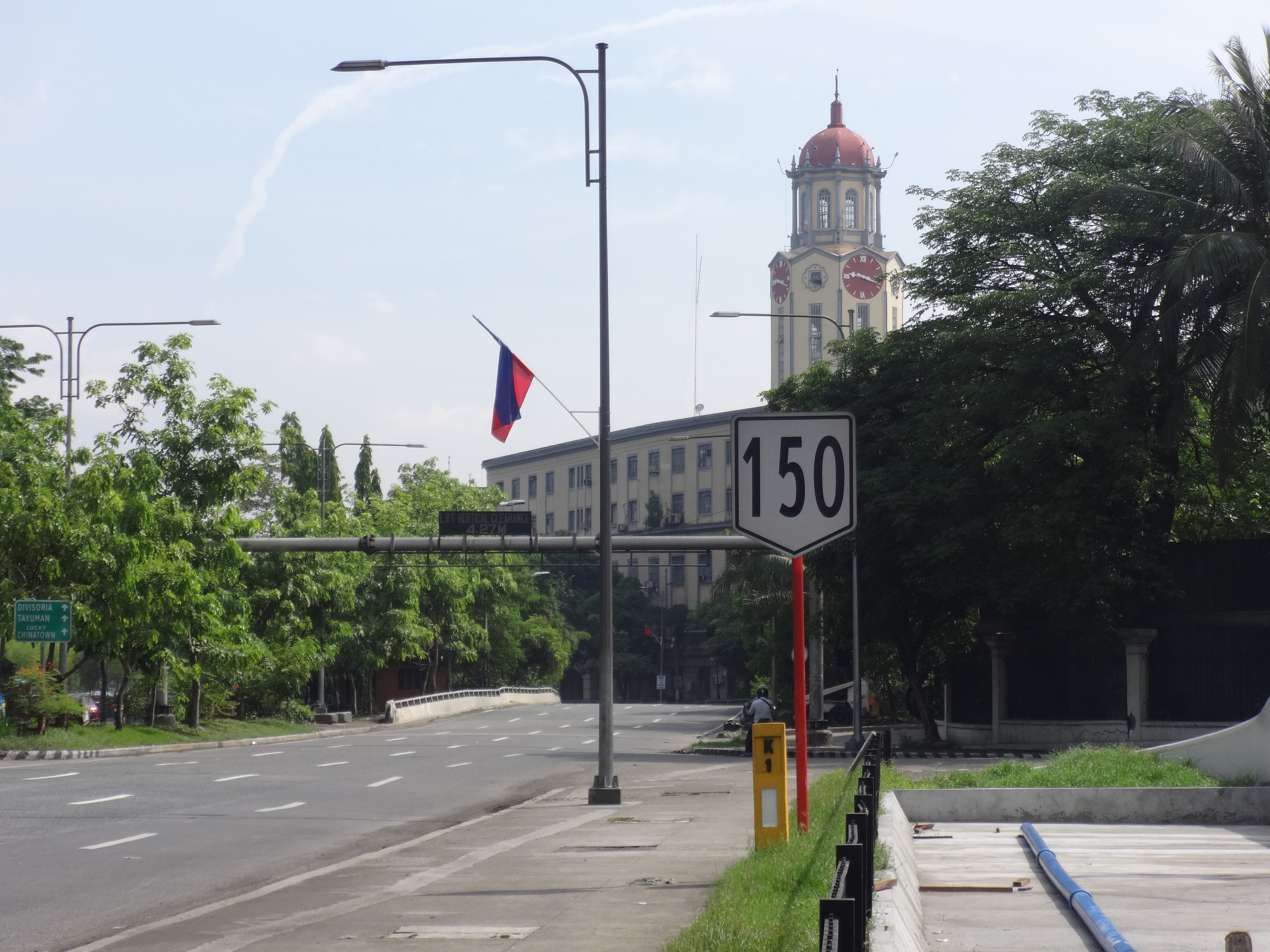 Route 150 marker along Padre Burgos Avenue, Ermita, Manila